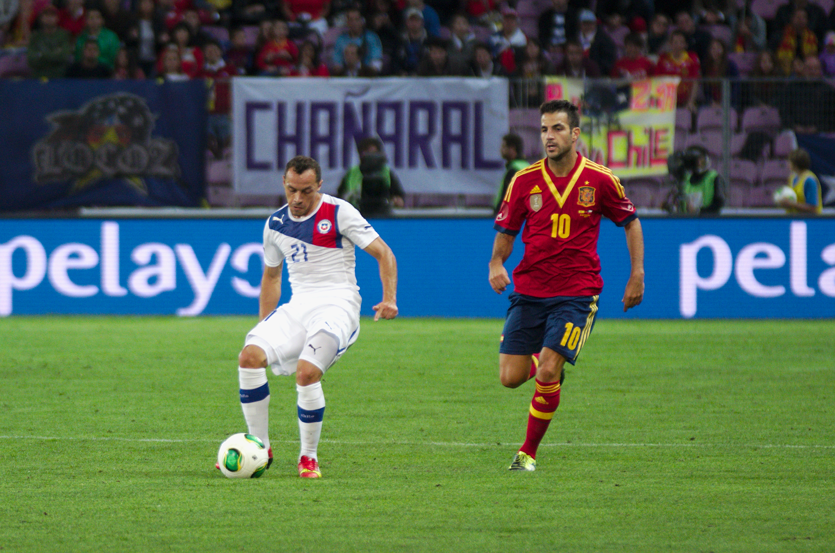 Spain - Chile - 10-09-2013 - Geneva - Marcelo Diaz and Francesc Fabregas